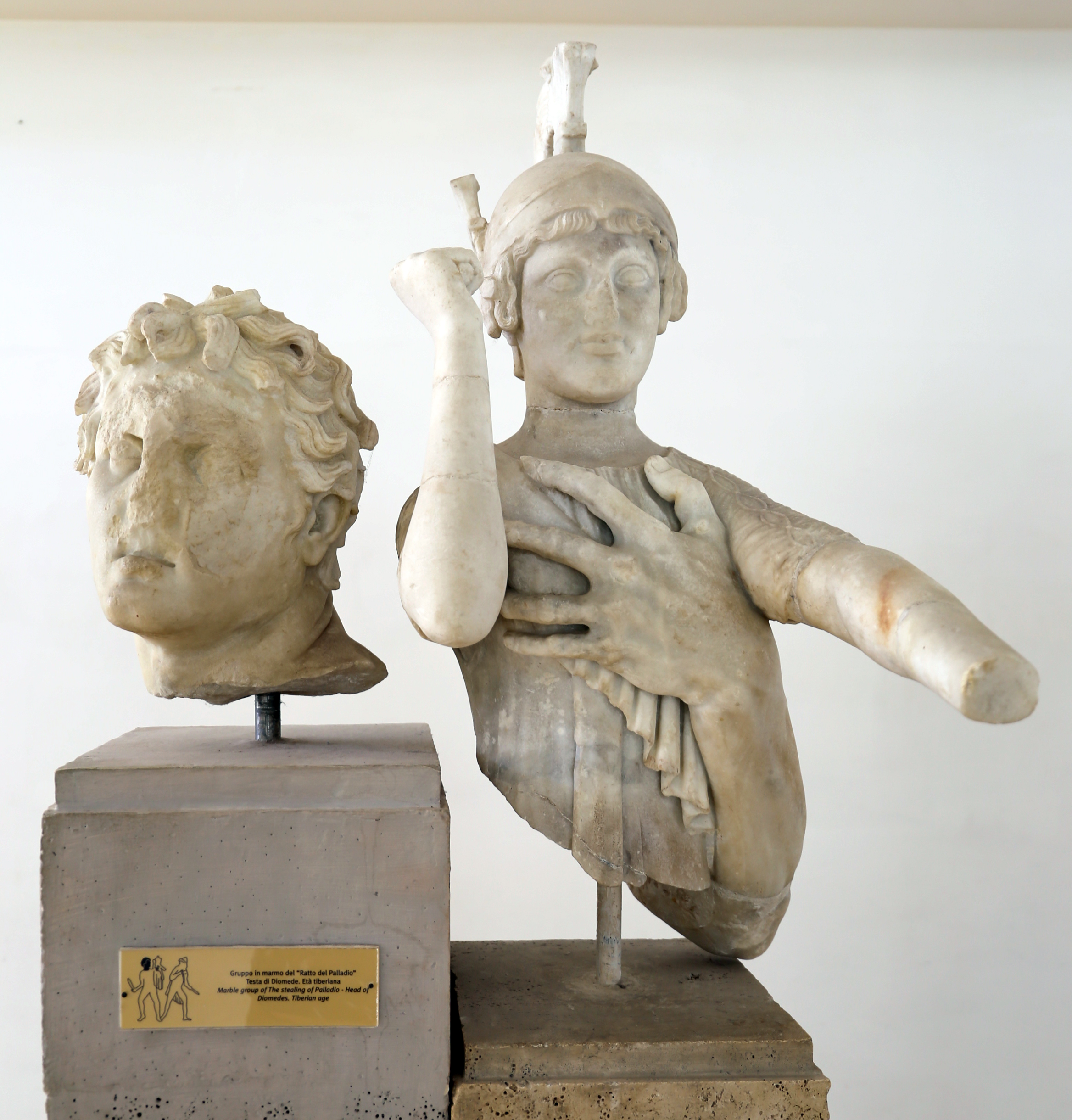 Museo archeologico nazionale di Sperlonga